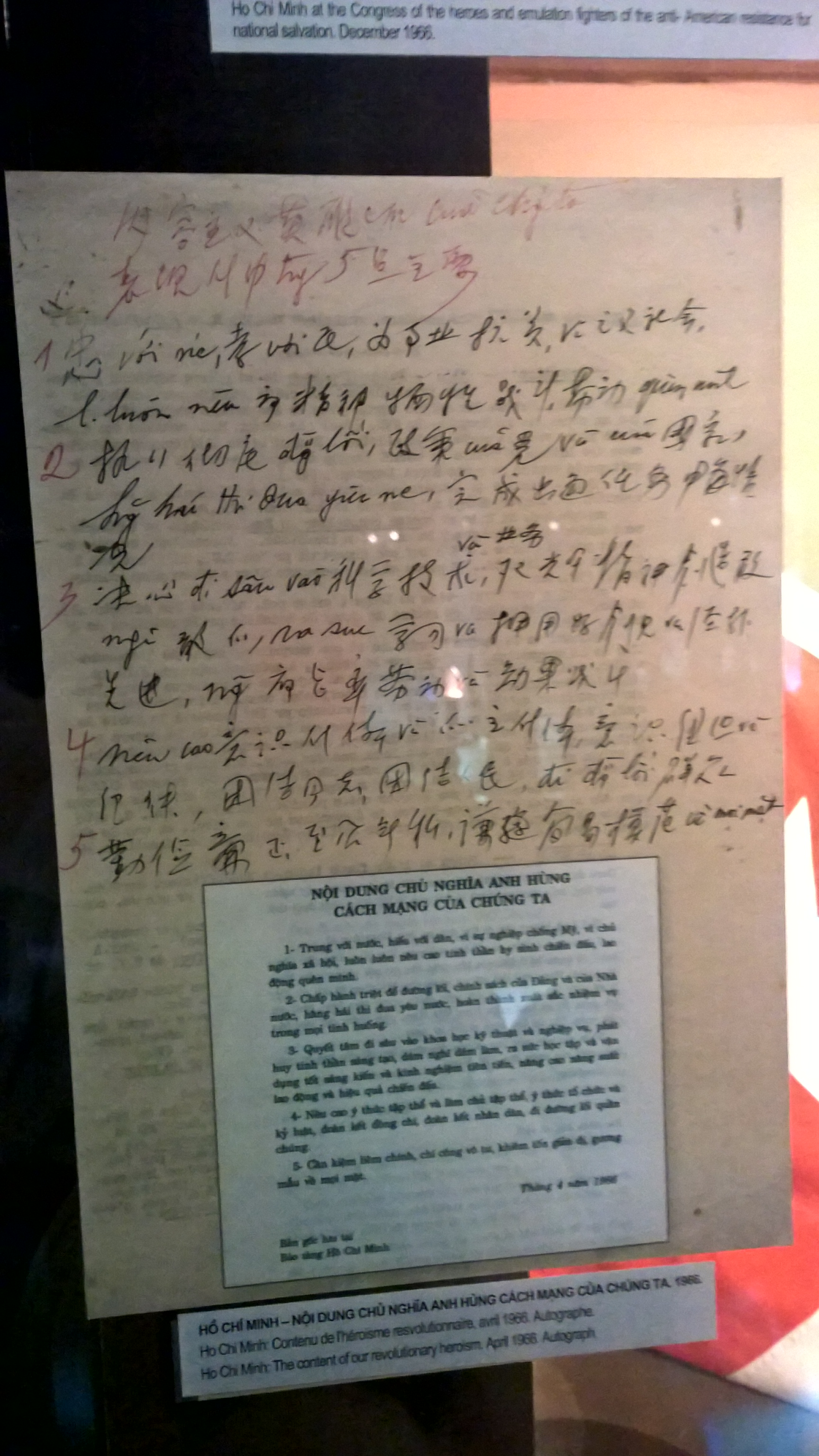 Ho Chi Minh's handwriting with mixed Traditional-Chinese and Latin scripts.